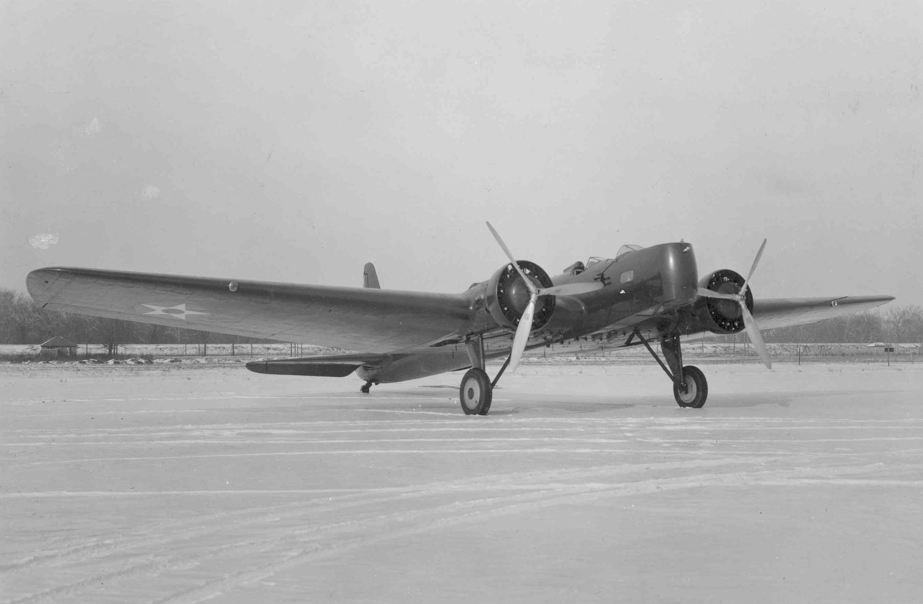 Y1B-9 on snow